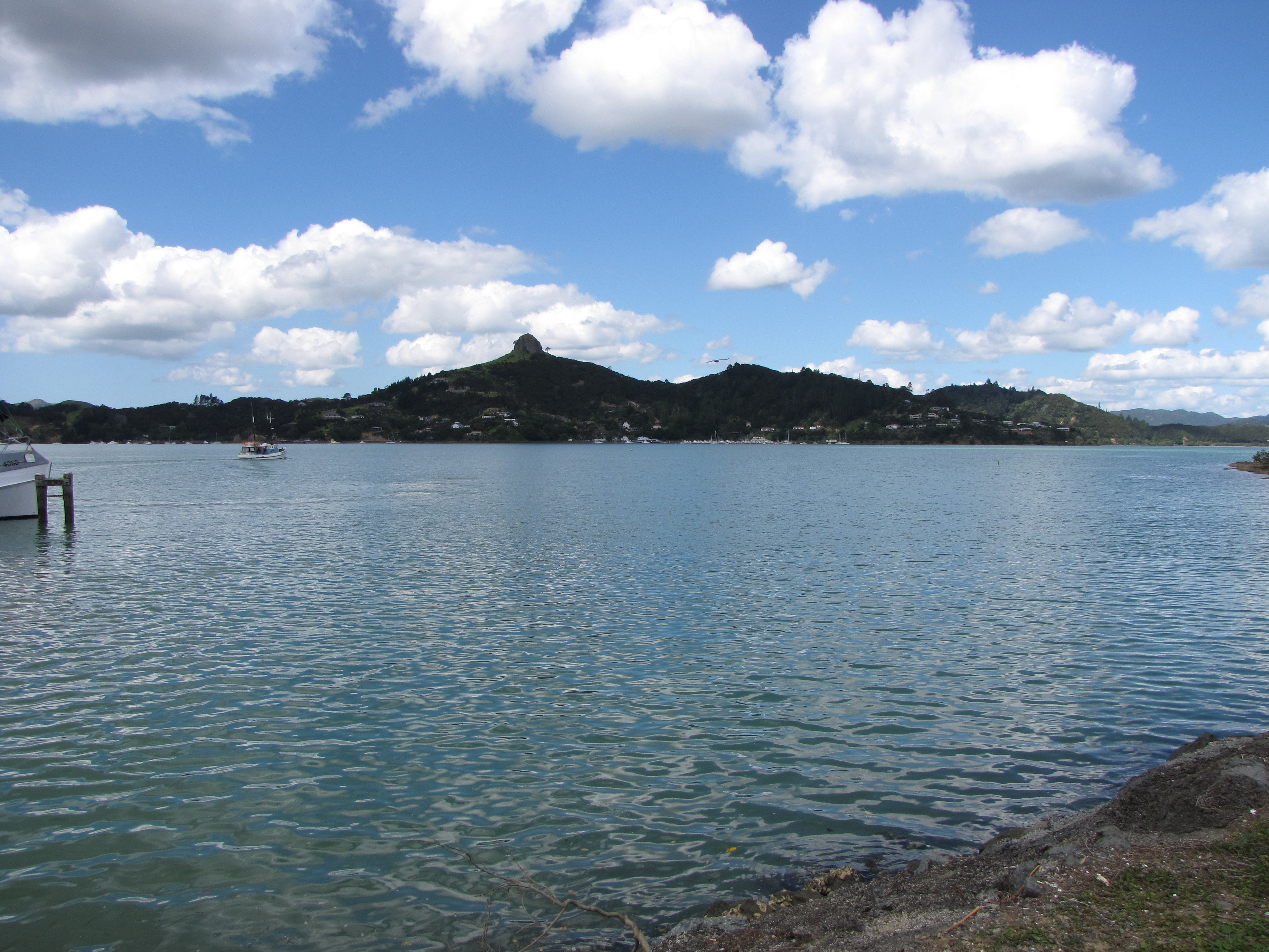 Whangaroa Harbour, Northland, New Zealand. The volcanic plug of St Paul rises over the settlement of Whangaroa.